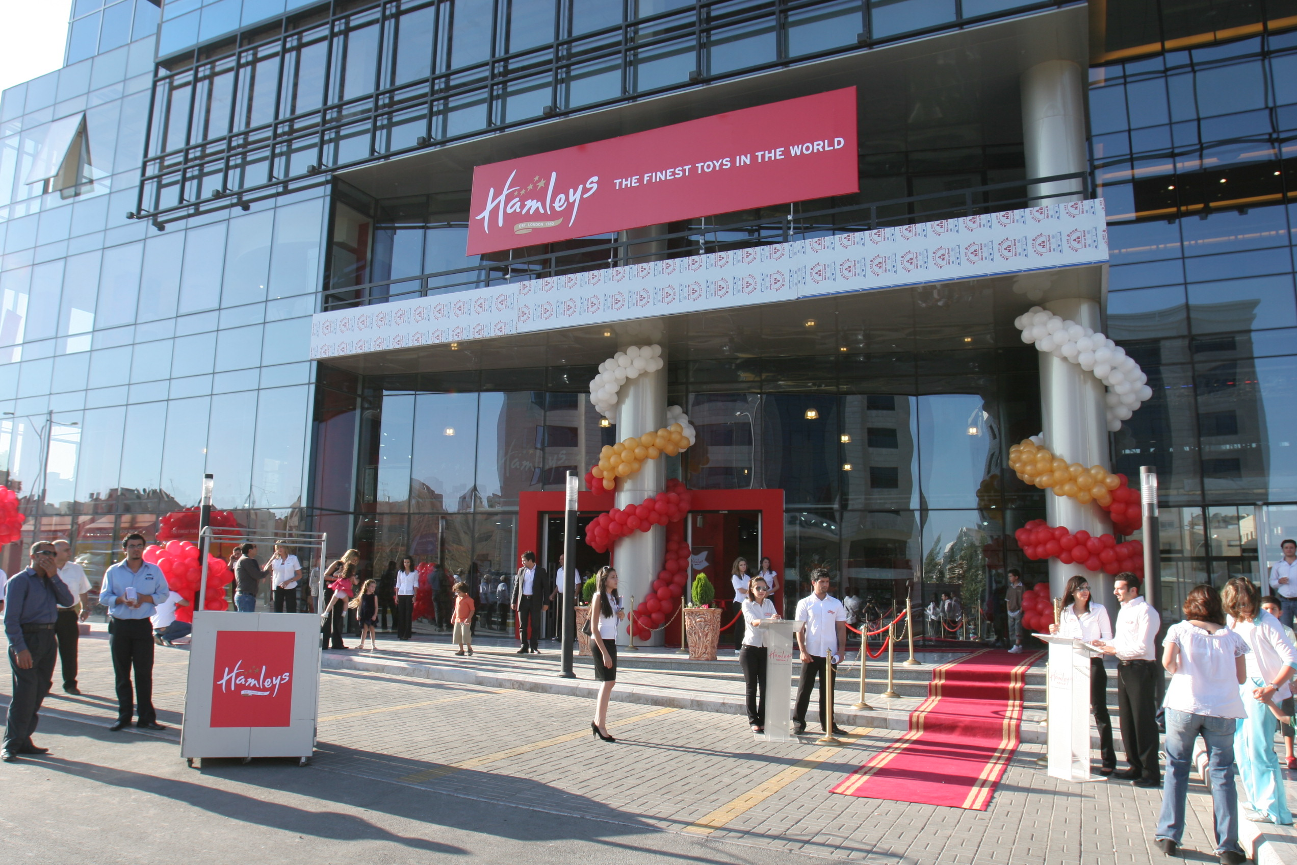 Hamleys - Mecca Street, Amman